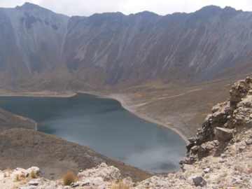 View of Lago del Sol from the caldera. View of the Laguna del Sol.